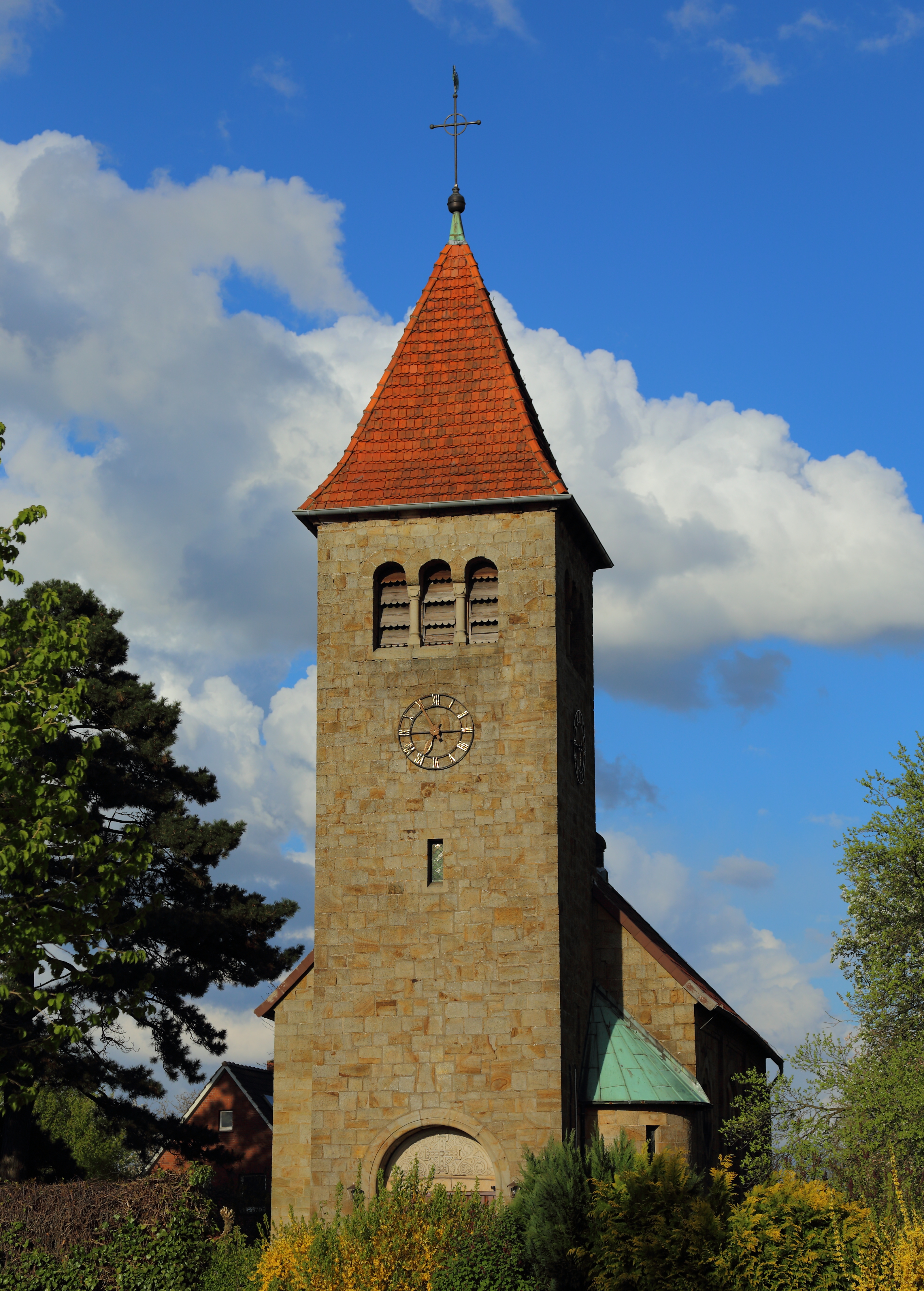 Protestant Saint John Church (Johanneskirche) in Ibbenbüren-Laggenbeck, Kreis Steinfurt, North Rhine-Westphalia, Germany.